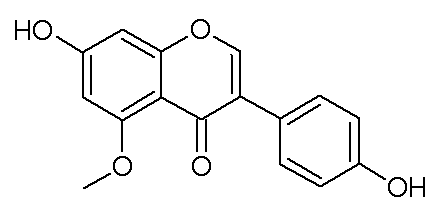 chemical structure of 5-O-methylgenistein